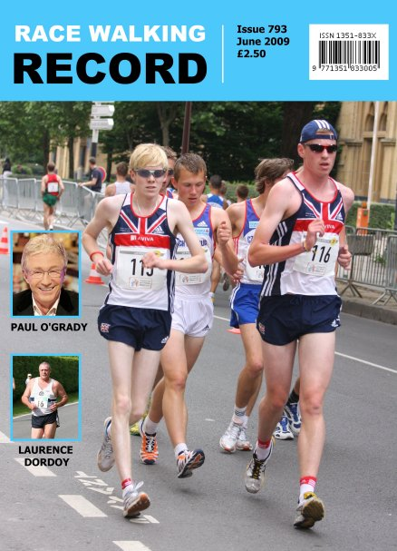 Front cover of Race Walking Record magazine, issue 793 June 2009.